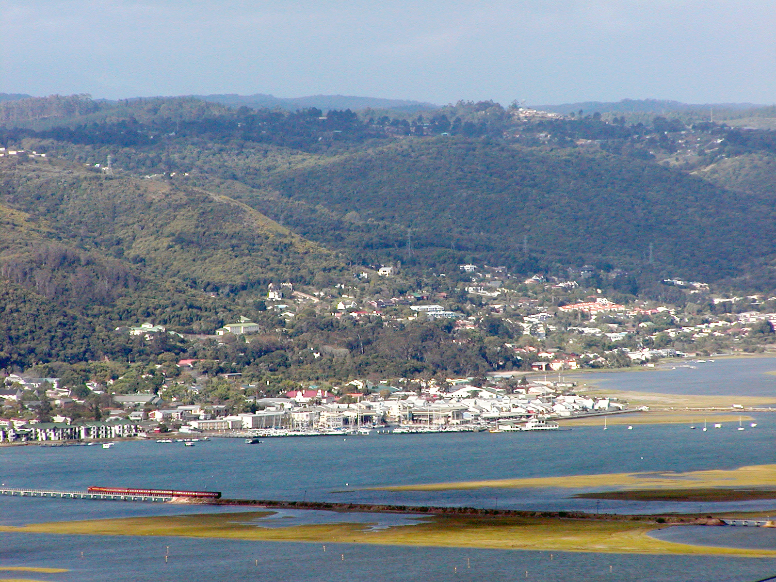 Yacht harbour of Knysna, South Africa. Railway in the front